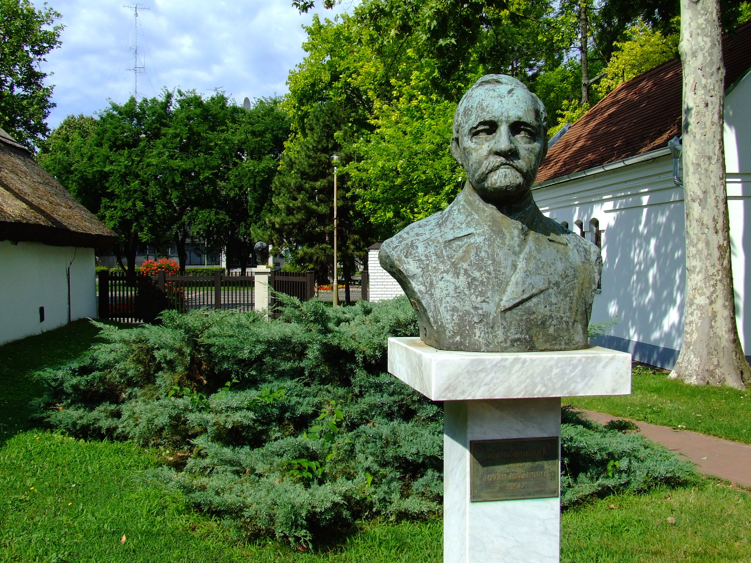 Jovan Jovanović Zmaj by Pavle Radovanović (Serbian sculptor, 1923-1981) in Kiskőrös, Petőfi Sándor Sculpture Park. 1971 Bronze bust, installation in 1994